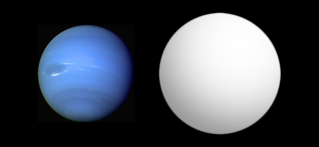 Comparison of best-fit size of the exoplanet HAT-P-11 b with the Solar System planet Neptune, as reported in the Extrasolar Planets Encyclopaedia[1] as of 2010-10-03. ↑ Extrasolar Planets Encyclopaedia (2010-09-30). Retrieved on 2010-10-03.